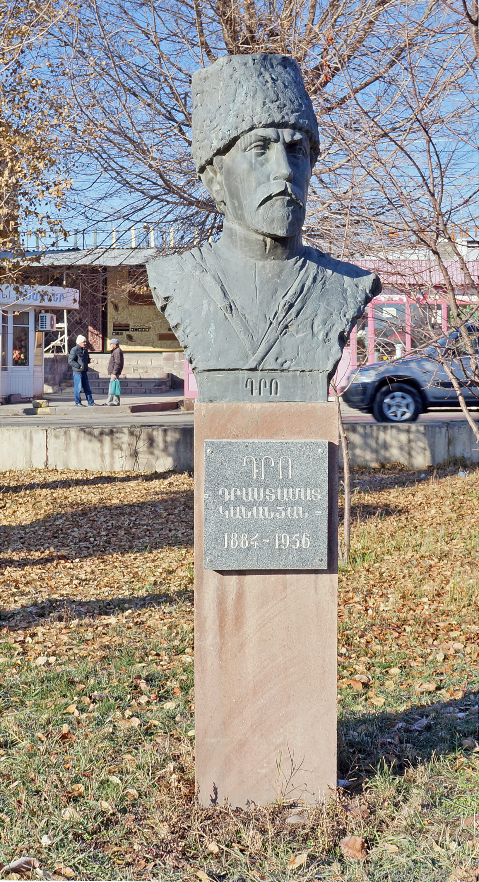 Drastamat Kanayan (Armenian military commander and politician) statue in Gyumri, Armenia.